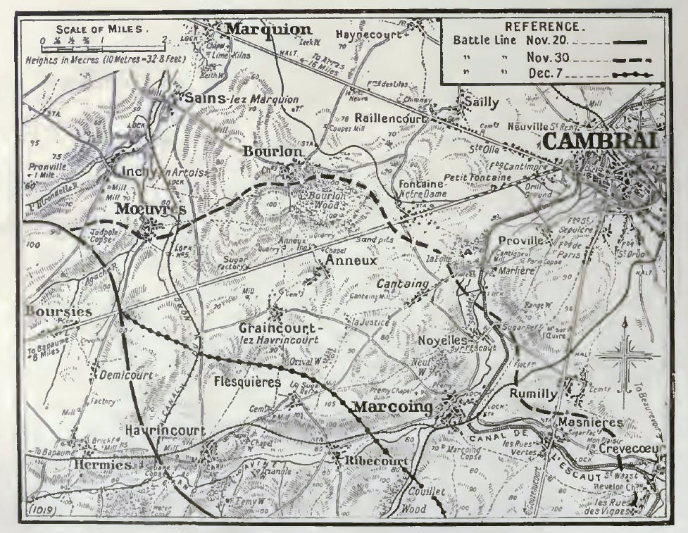 Map of Cambrai Salient (north), November-December 1917